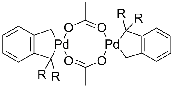 Herrmann catalyst for Heck reaction